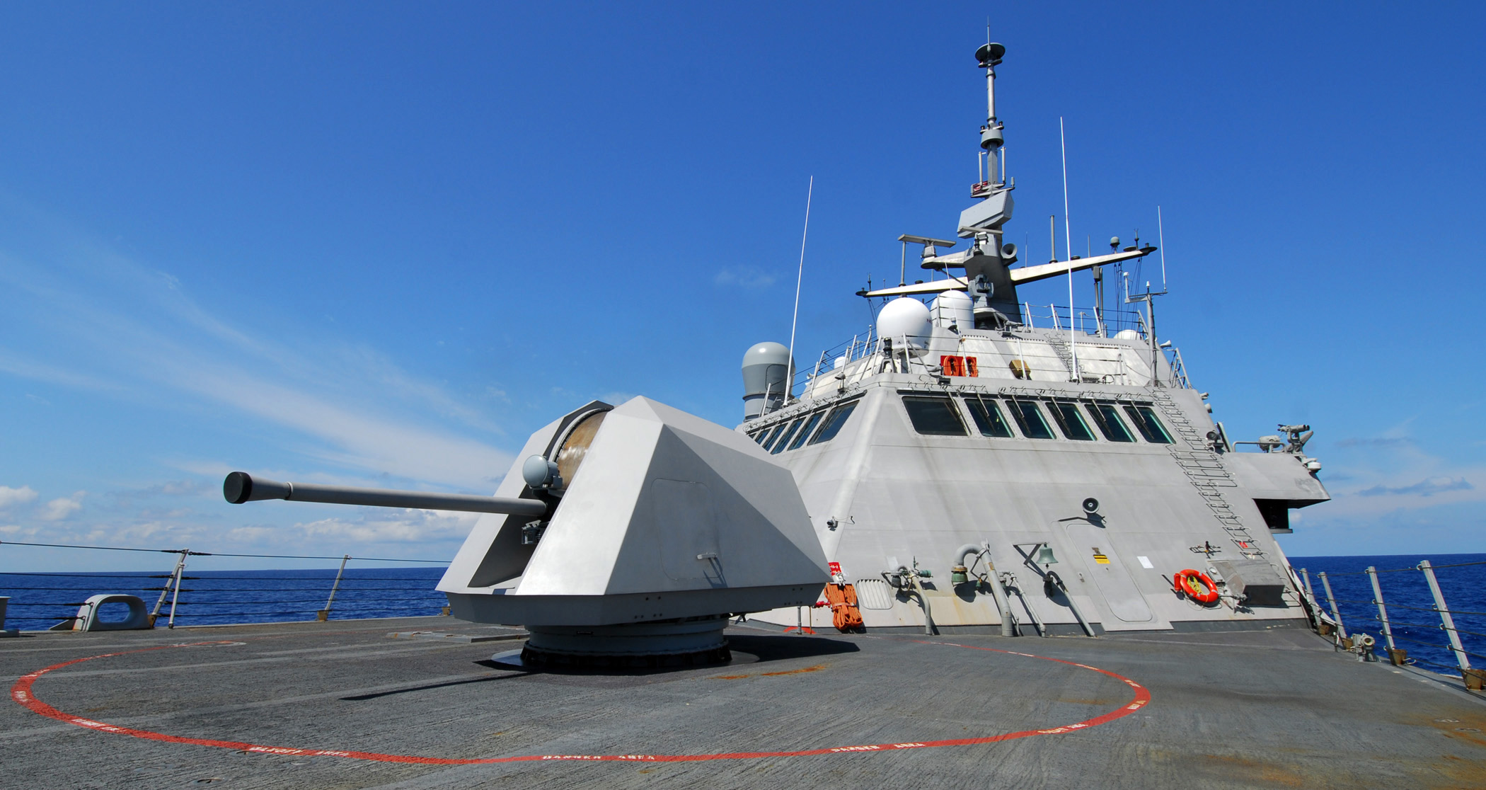 CARIBBEAN SEA (Feb. 20, 2010) The littoral combat ship USS Freedom (LCS-1) transits the Caribbean Sea during its maiden deployment. Freedom is conducting counter-illicit trafficking operations and theater security cooperation in the U.S. 4th Fleet area of responsibility.